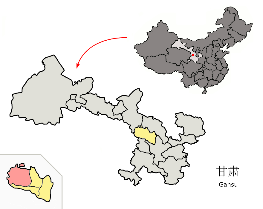 Location of Yongdeng County (pink) within Lanzhou Prefecture (yellow) and Gansu province of China Map drawn in september 2007 using various sources, mainly : Gansu province administrative regions GIS data: 1:1M, County level, 1990 Gansu Counties map from